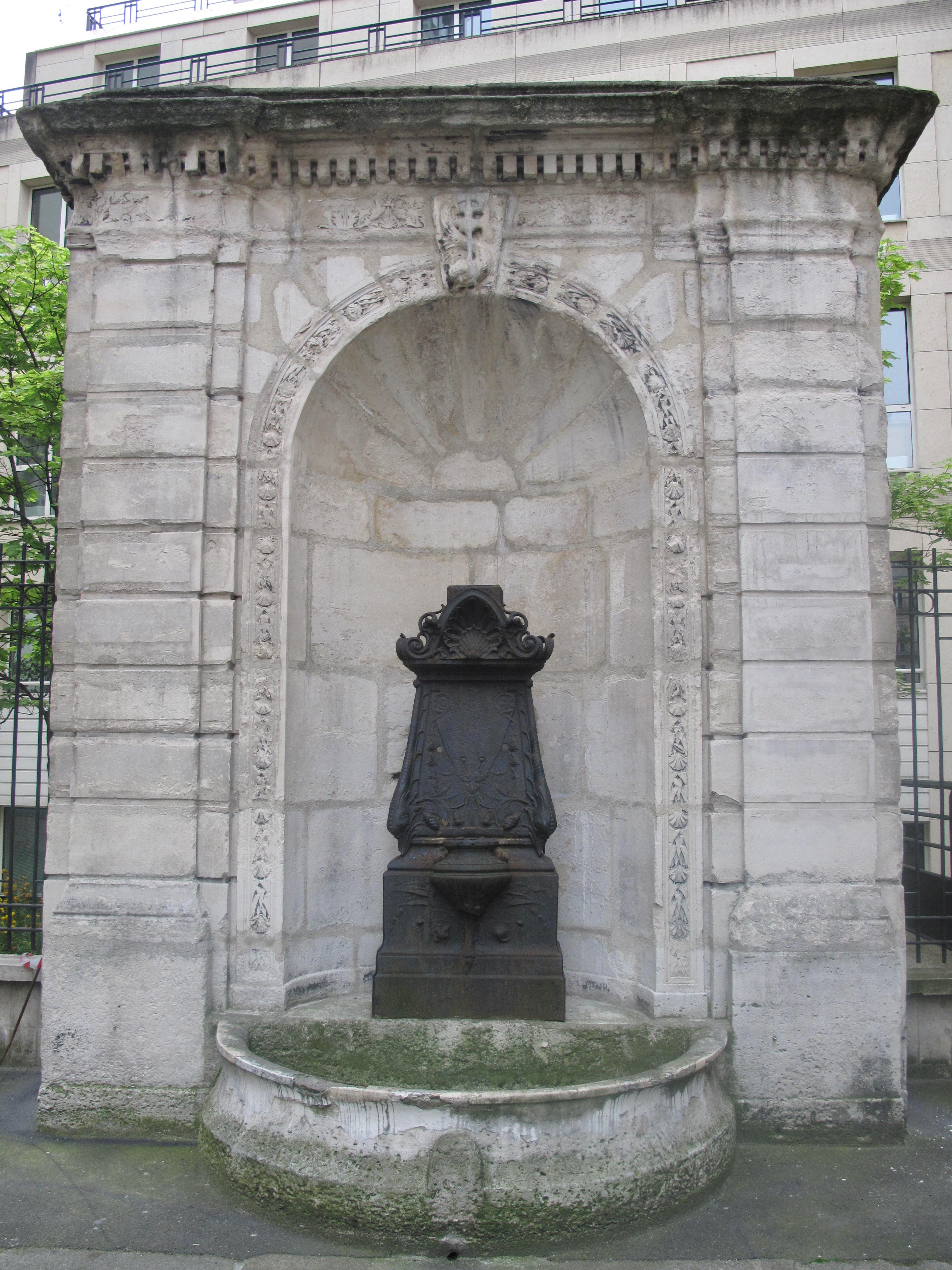 The Fontaine du Coq, the only remaining of the chateau du Coq, formerly chateau des Porcherons : Avenue du Coq, Paris 9th arr.